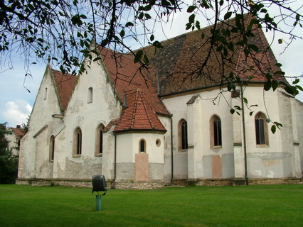 Church of Ráckeve.